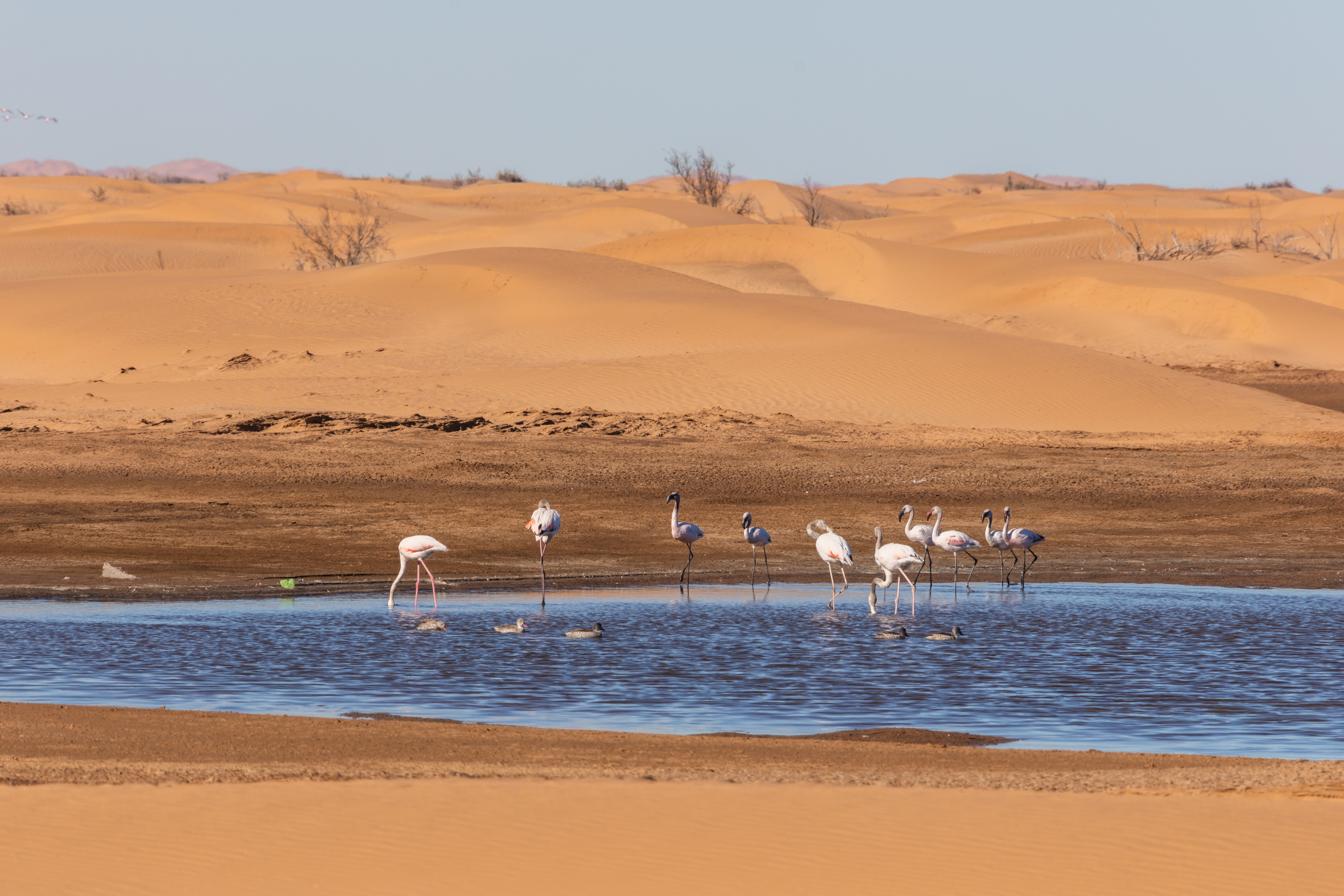 Greater flamingos (Phoenicopterus roseus), Walvis Bay, Namibia